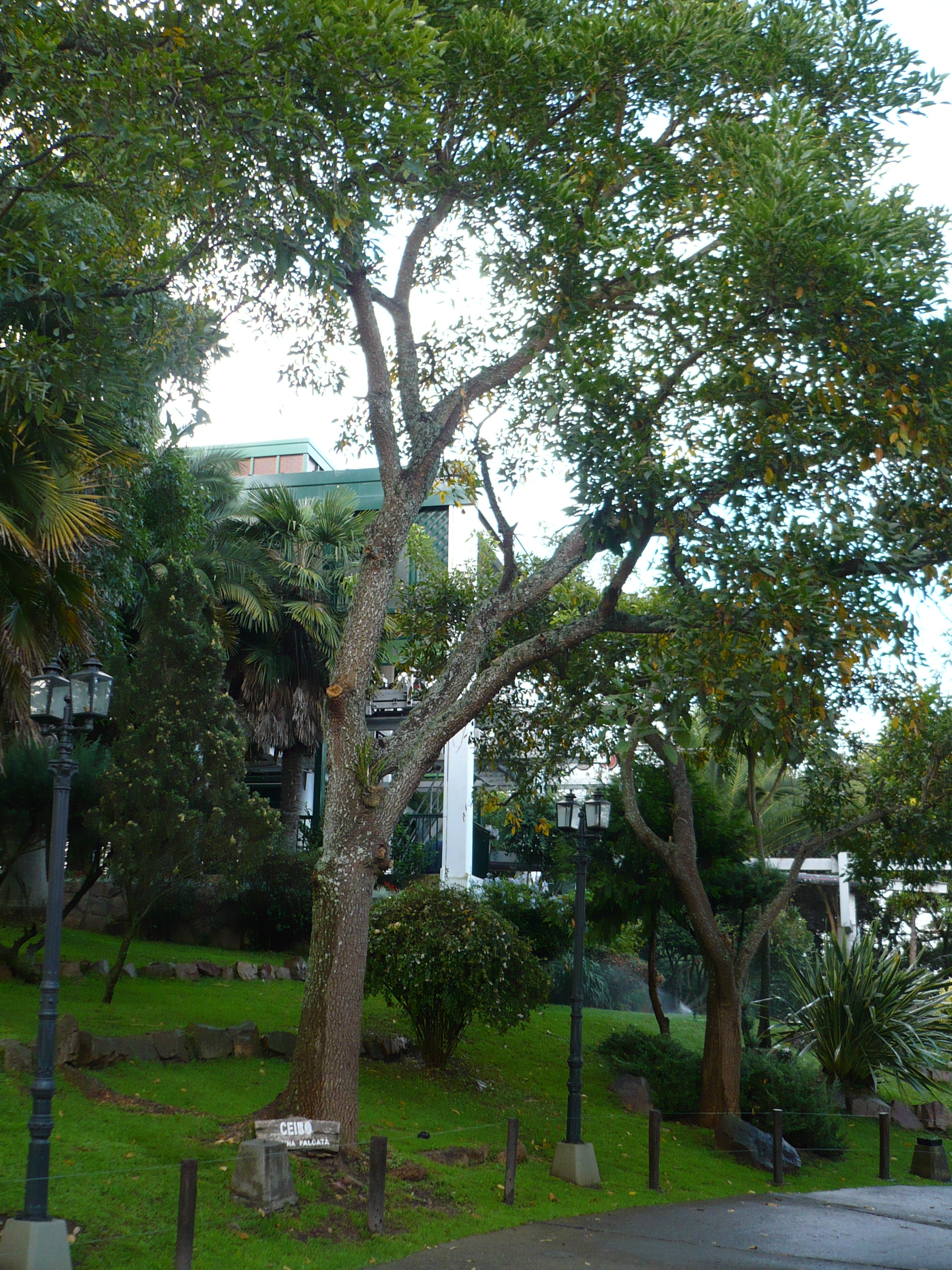 Brazilian Coral Tree